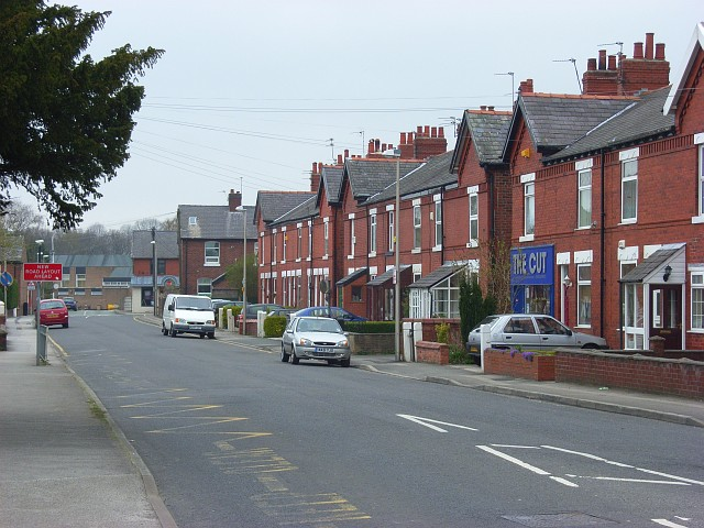 Bulkeley Road, Poynton A terrace of houses in the older eastern part of the village incorporates a hairdresser's shop. This is the view from the junction with Clumber Road. As suggested by the road-markings, there is a school on the left.